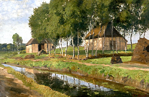 Abend am Moorkanal II